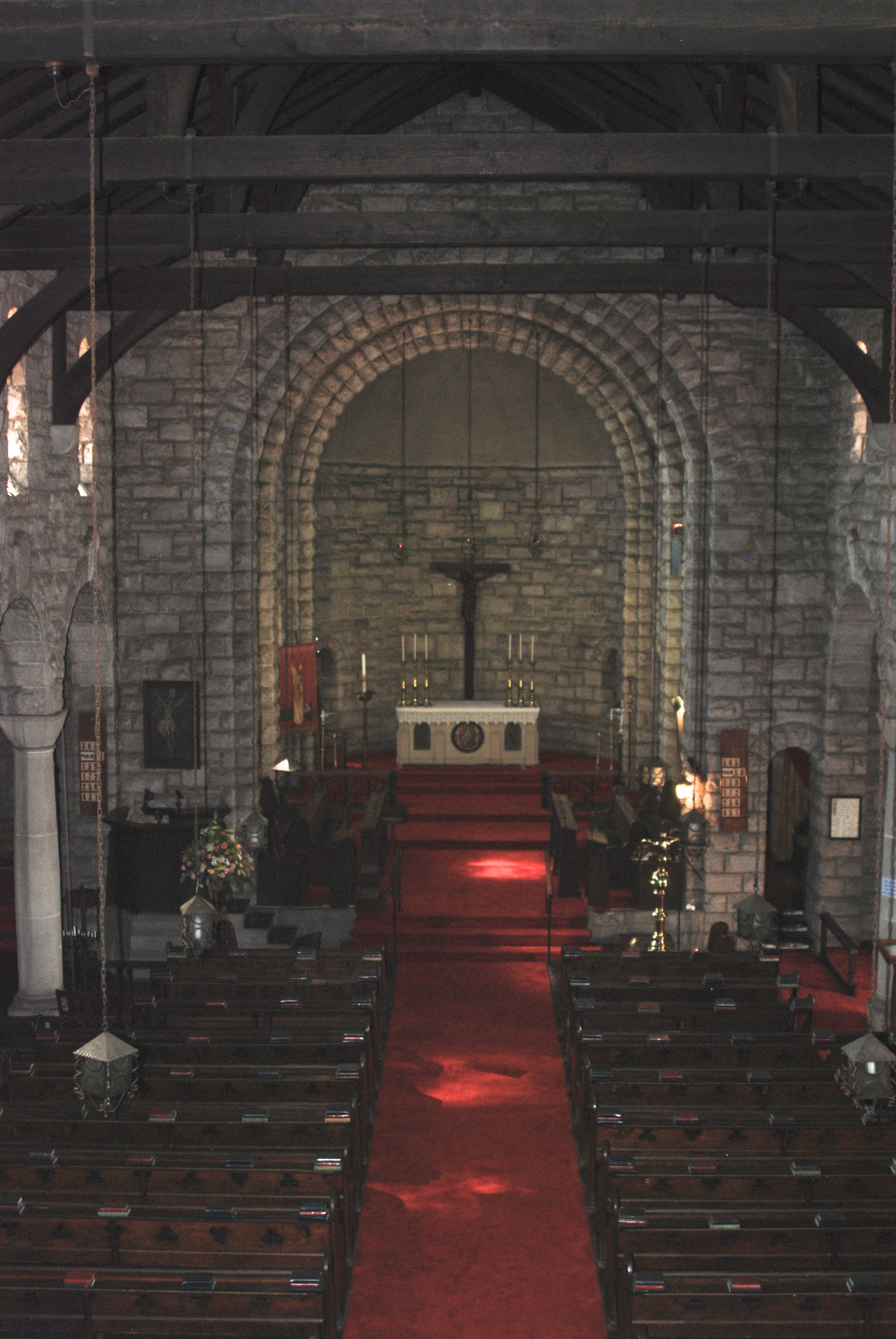 Interior of St Boniface Anglican church in Germiston South Africa